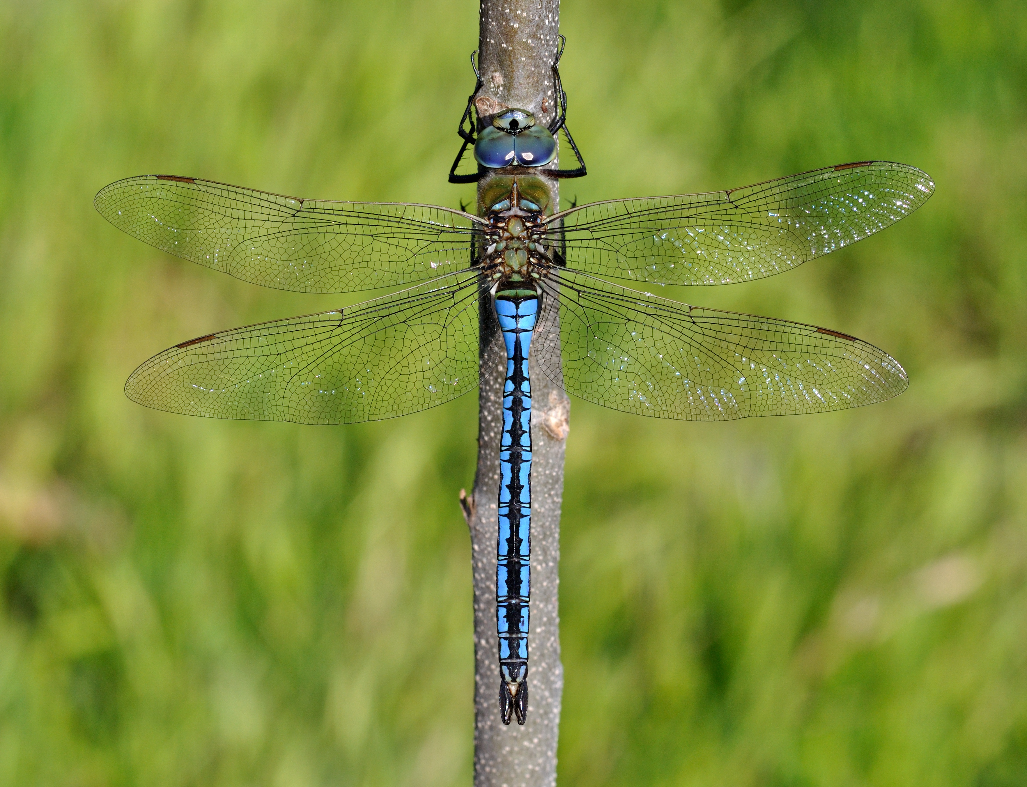 Male Emperor Dragonfly (Anax imperator) in Puerto de la Cruz, Tenerife, Spain.